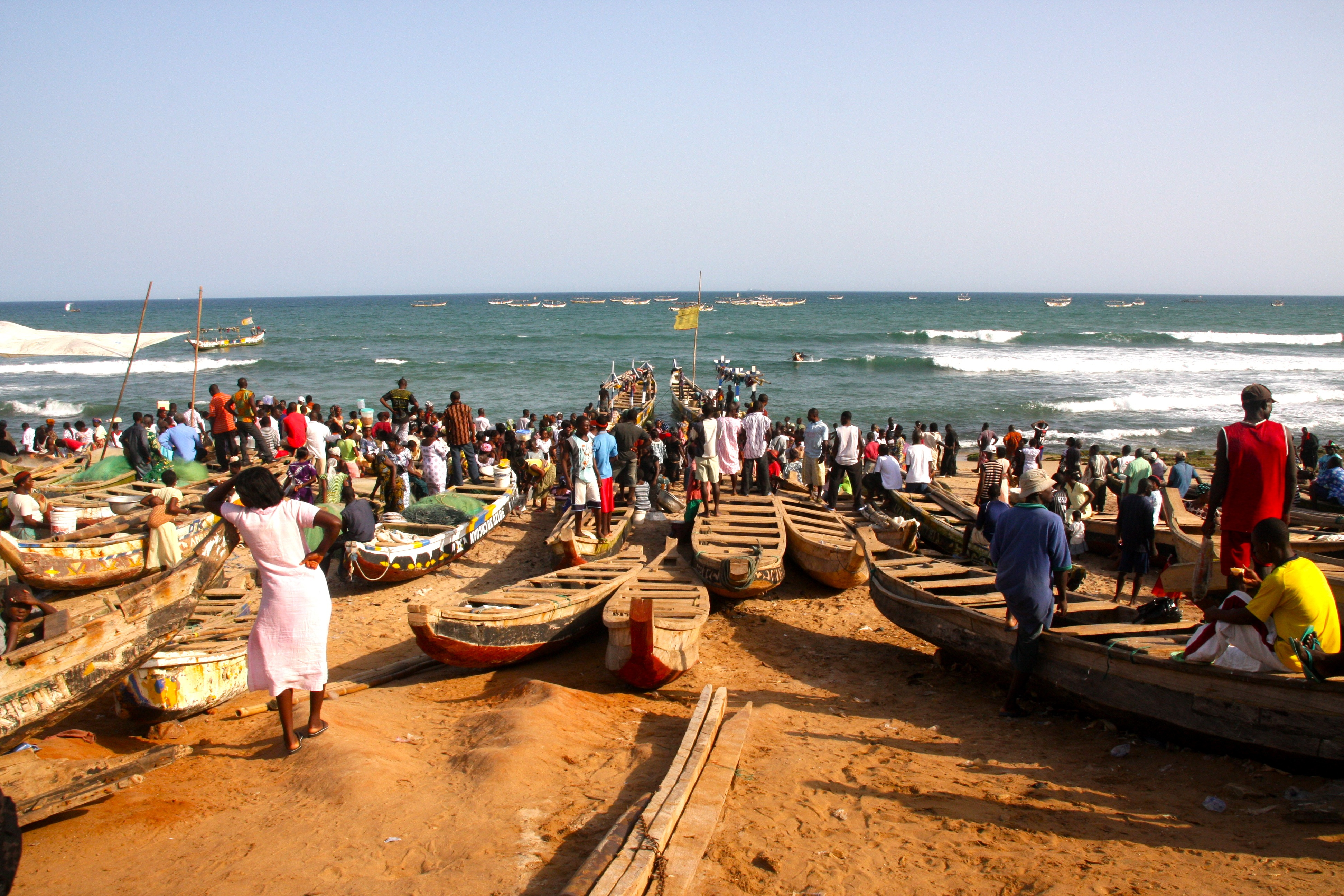 Fishermen coming in, Prampram